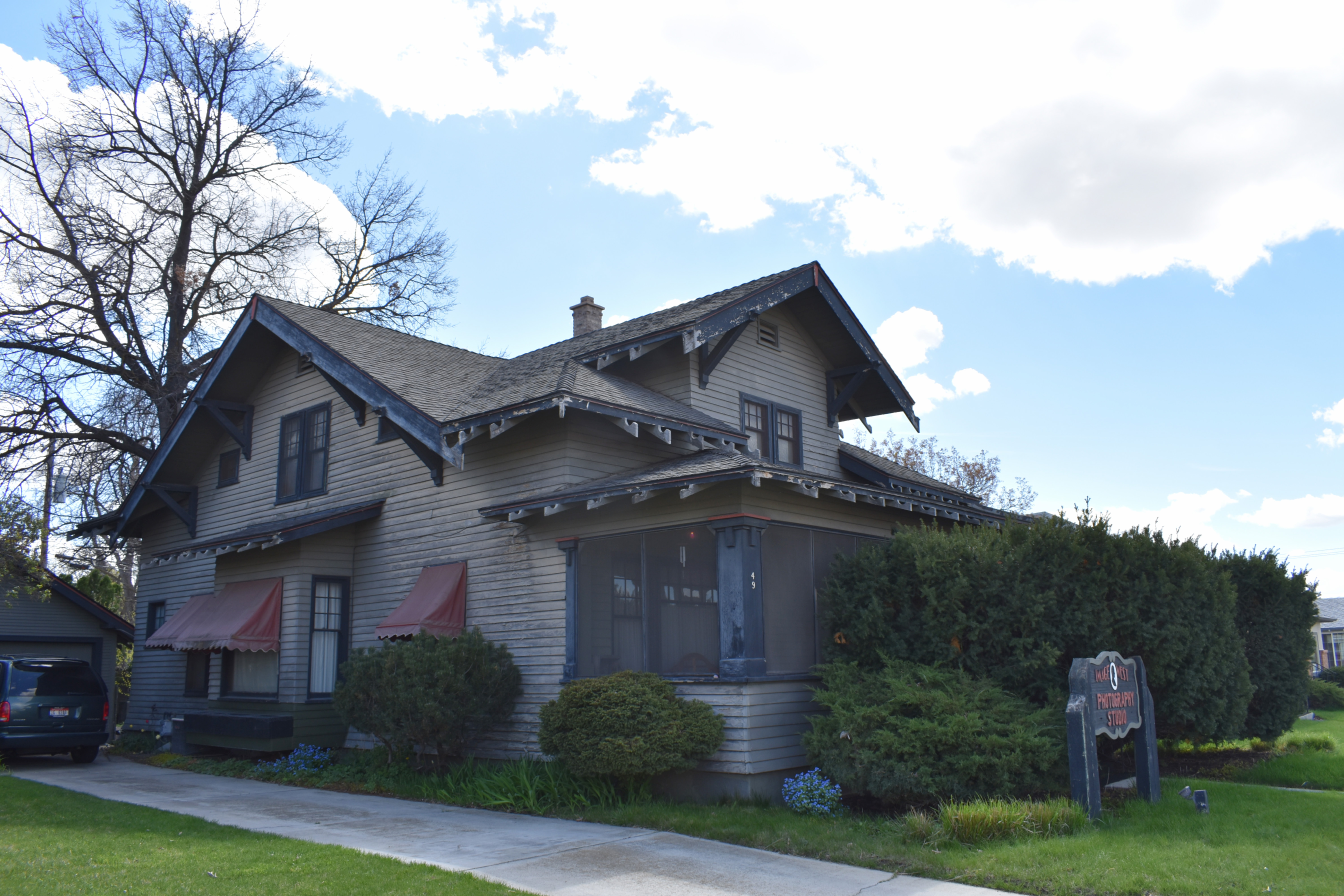 The E.F. Hunt House in Meridian, Idaho, was designed by Tourtellotte & Hummel and constructed in 1913. The house is listed on the National Register of Historic Places.